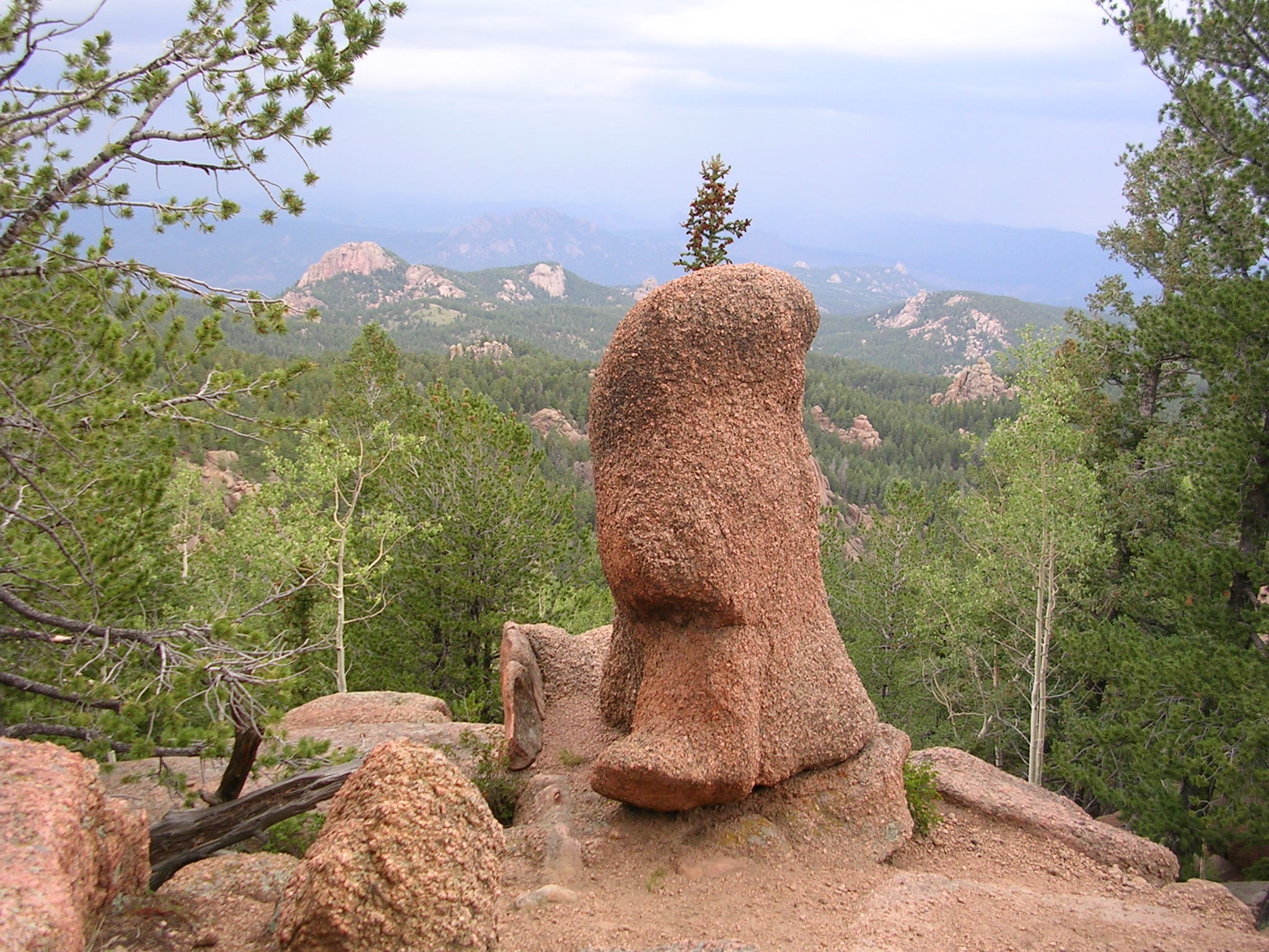 A picture of an odd-shaped boulder on the trail to Devil's Head Lookout in Colorado. The boulder is an example of Pike's Peak granite.